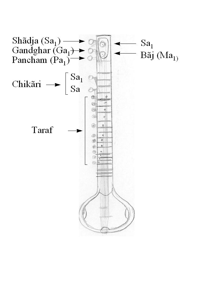 Anatomy of a sitar Zman 19:54, 13 May 2006 (UTC)